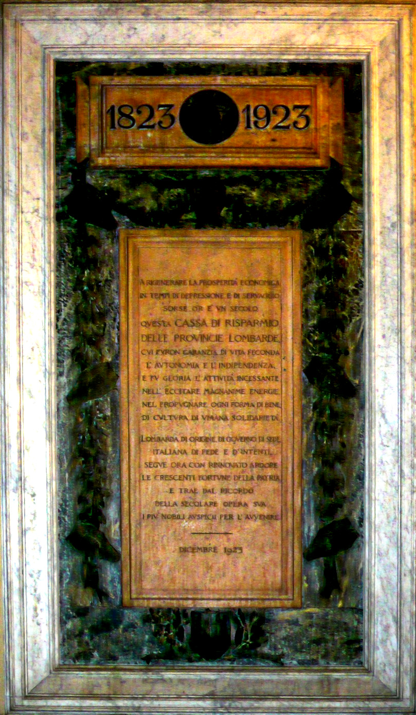 Plaque for the first centennial of Cassa di Risparmio dello Provincie Lombarde, 1823-1923, in the entrance of Ca' de Sass in Milan